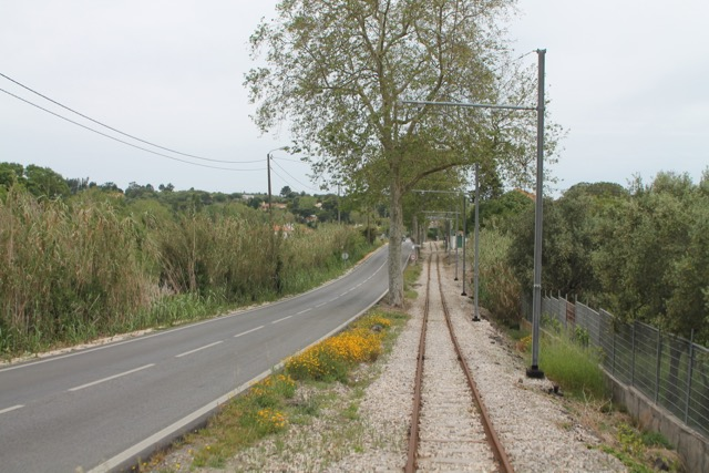 Sintra tram-line from Galamares to Colares